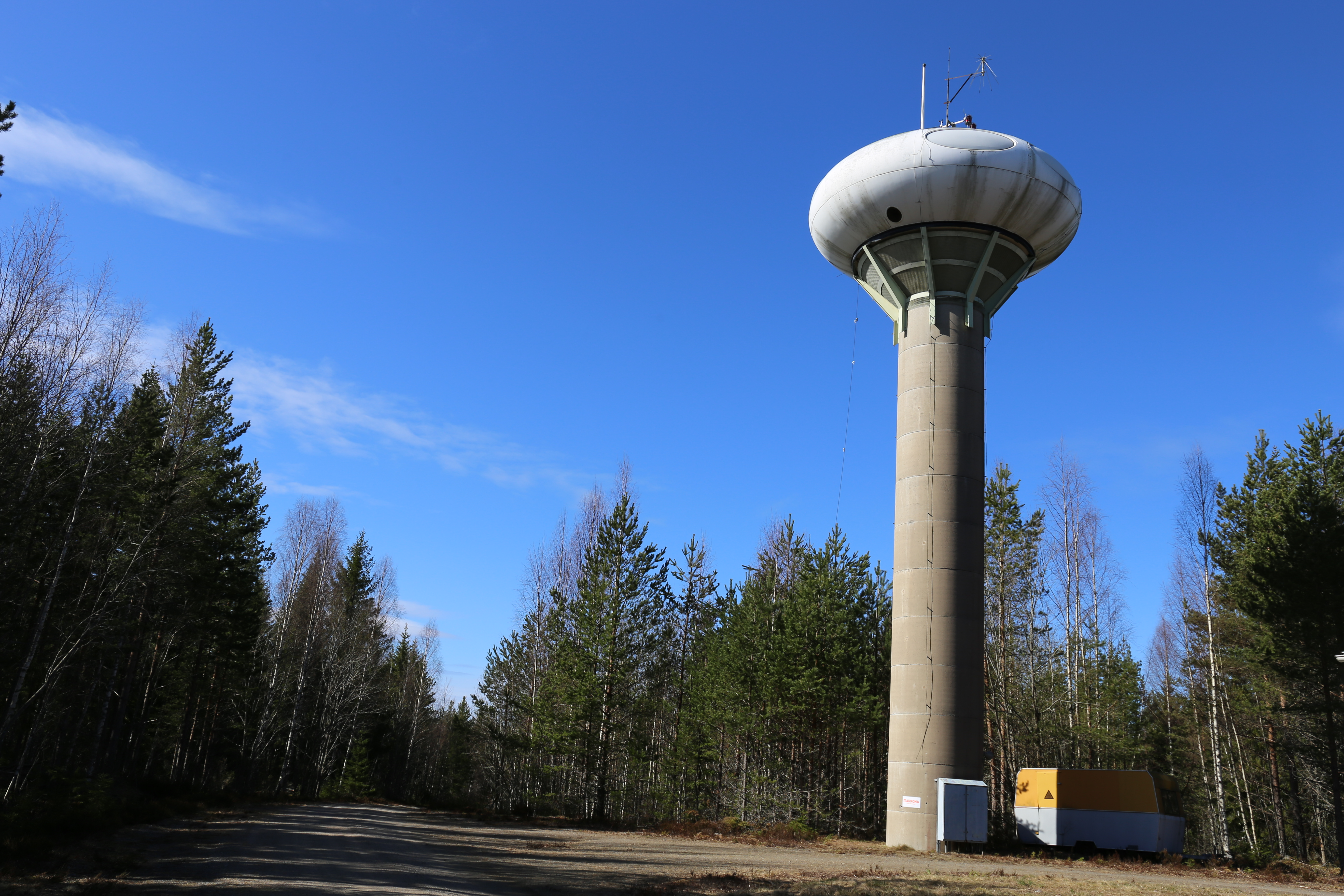 Futuro house at Norans Air Force firing gound.